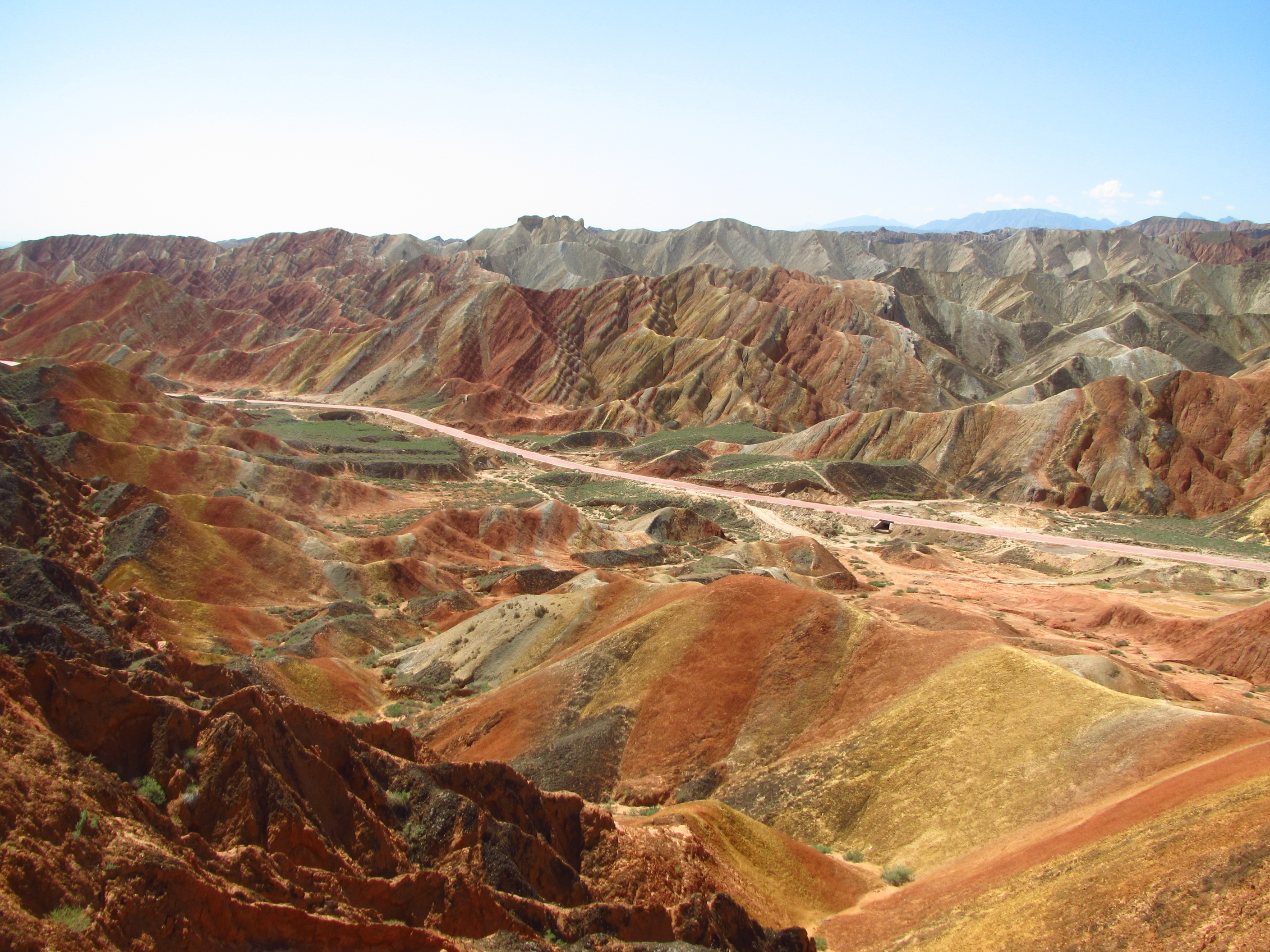 View from within the Zhangye Danxia National Geological Park.